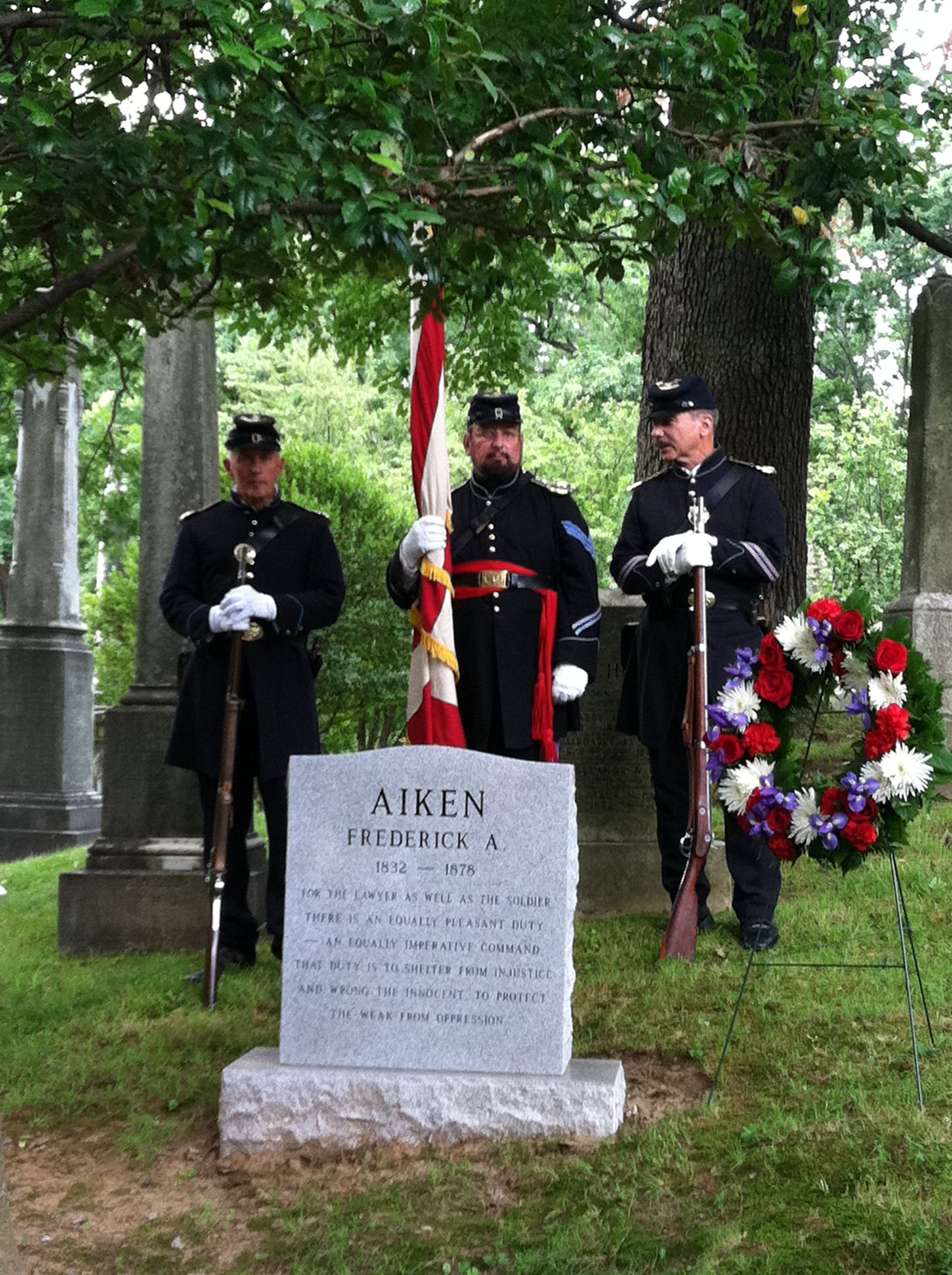 This is a photo taken at the ceremony for the gravestone of Frederick A. Aiken. It was taken at Oak Hill Cemetery. Previously his grave was unmarked, but the Surratt Society raised the funds for his gravestone. The ceremony was June 14, 2012.